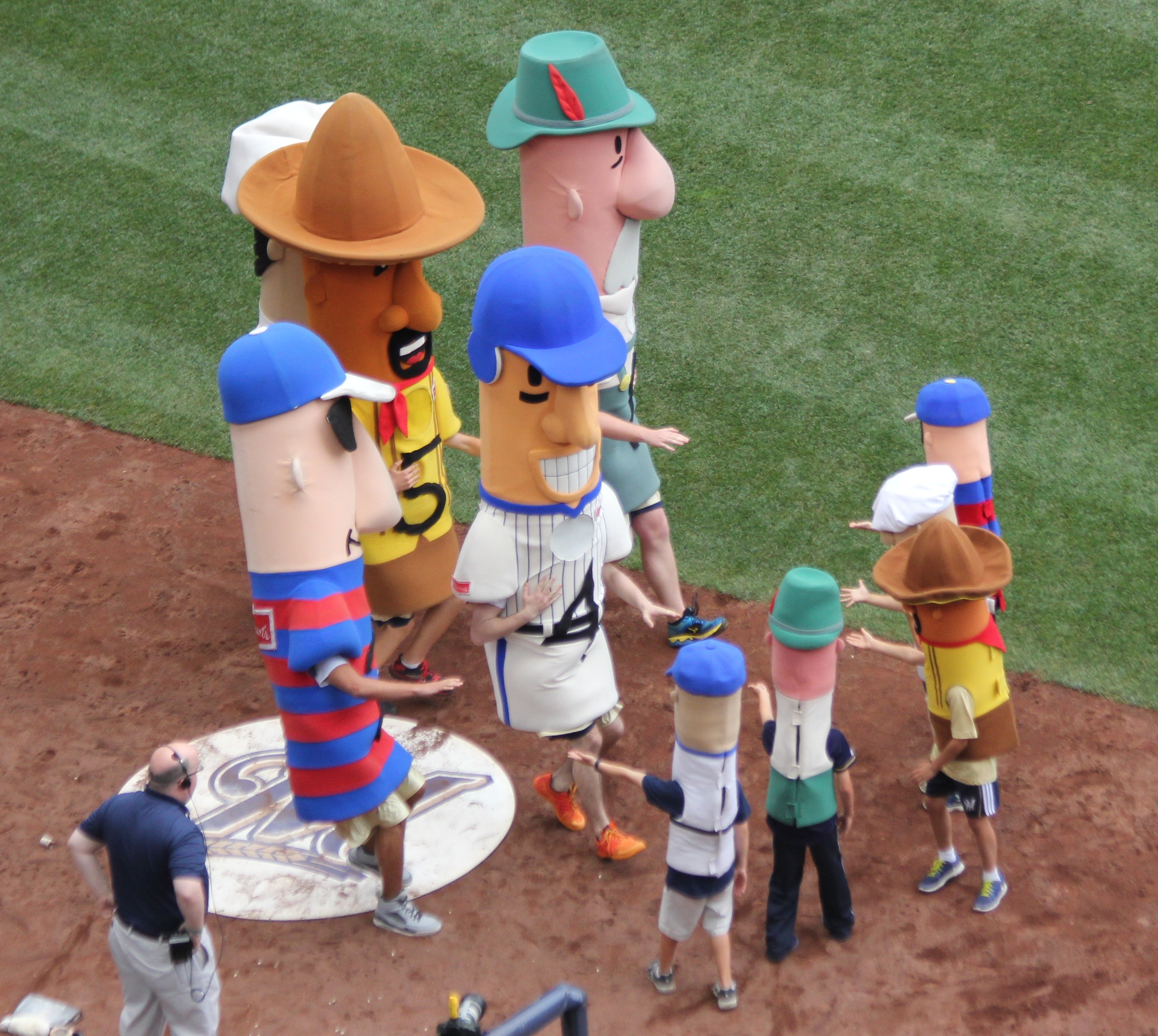 The Racing Sausages at Miller Park tag the Little Weenies at a Milwaukee Brewers Sunday game.